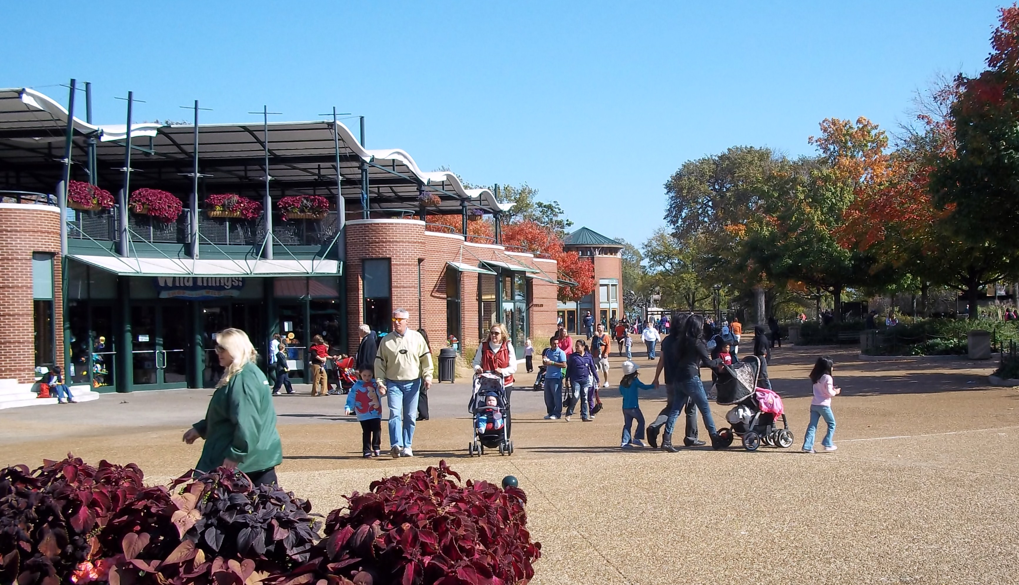 Main mall of Lincoln Park Zoo